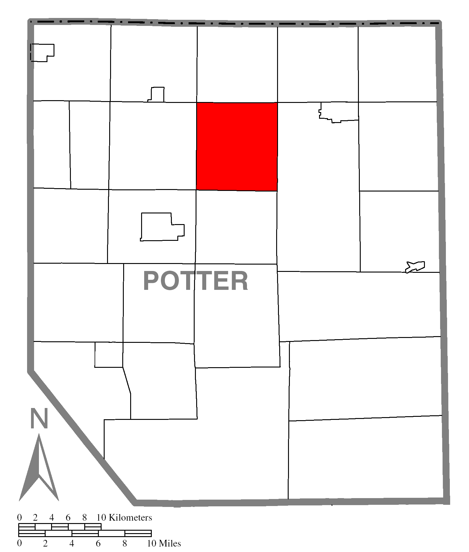 A map of Potter County showing Allegany Township, Pennsylvania (alternate) highlighted on the map.